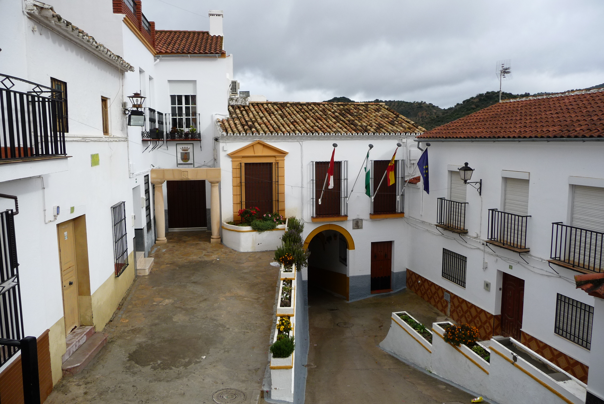 Town Hall (Ayuntamiento)